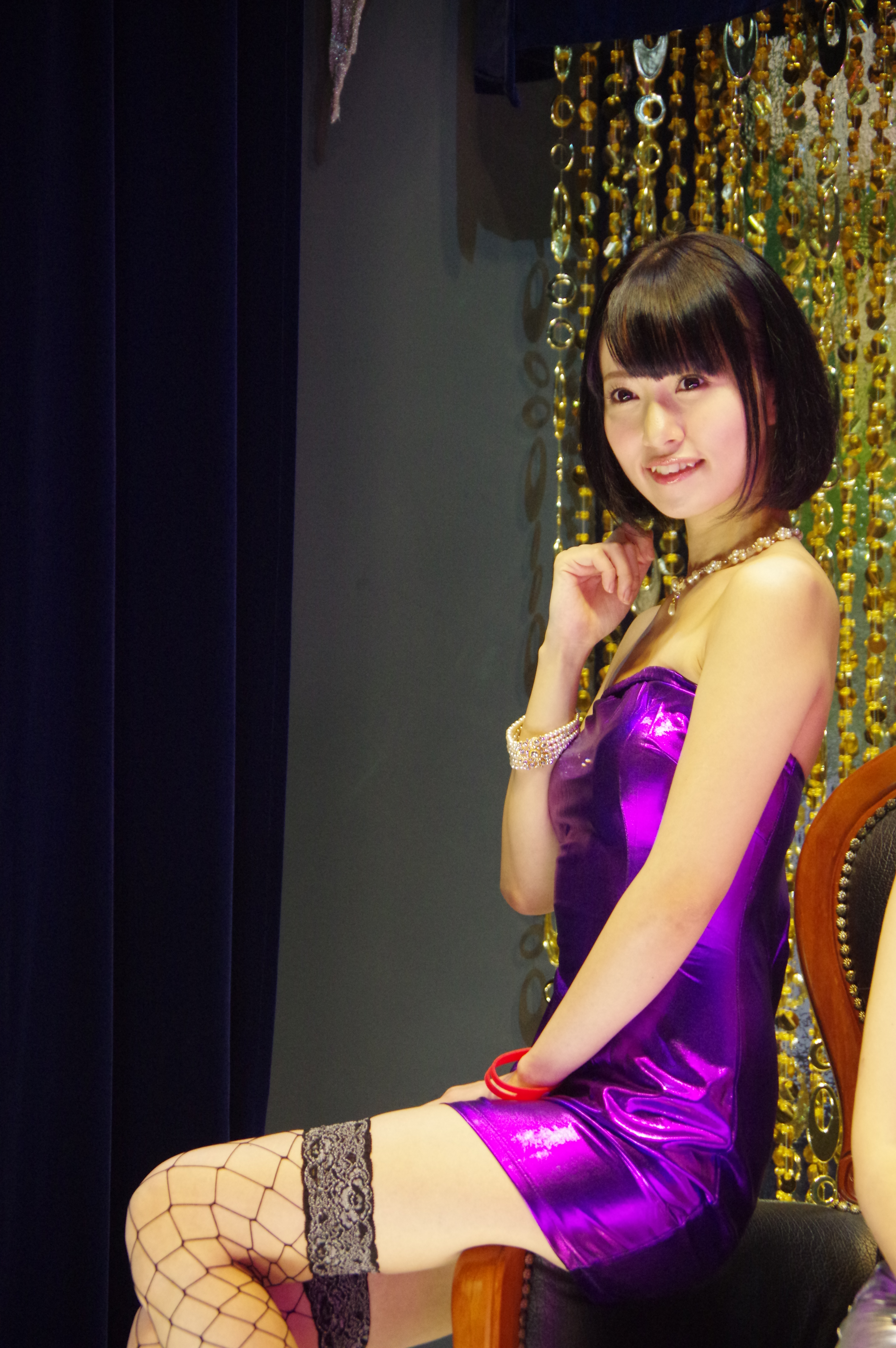 Kotomi Asakura at Tokyo Game Show 2014